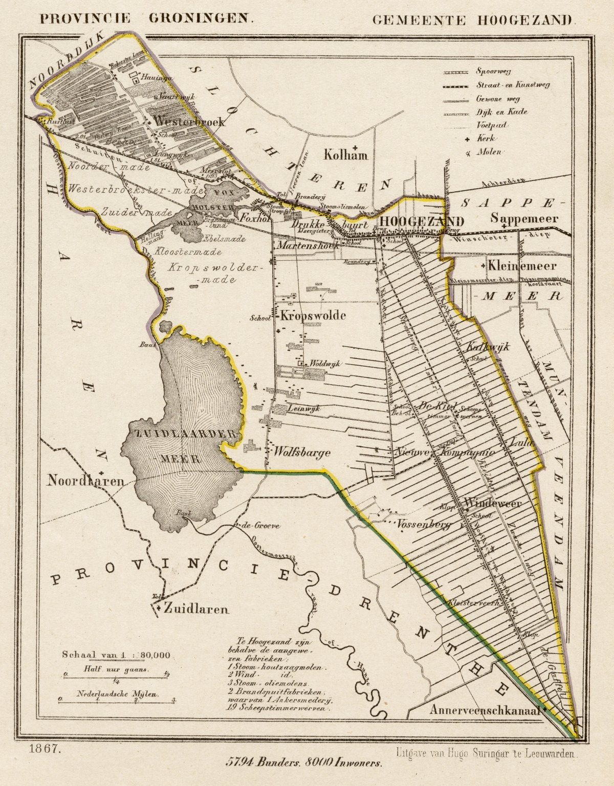 Map from 1867 of the former municipality of Hoogezand (Prov. Groningen, Netherlands). The former municipality also encompassed the hamlets of Foxhol, Kalkwijk, de Kiel, Kropswolde, Lula, Nieuwe Kompagnie, Westerbroek, Windeweer and Wolfsbarge. Since 1949 Hoogezand is part of the municipality of Hoogezand-Sappemeer.